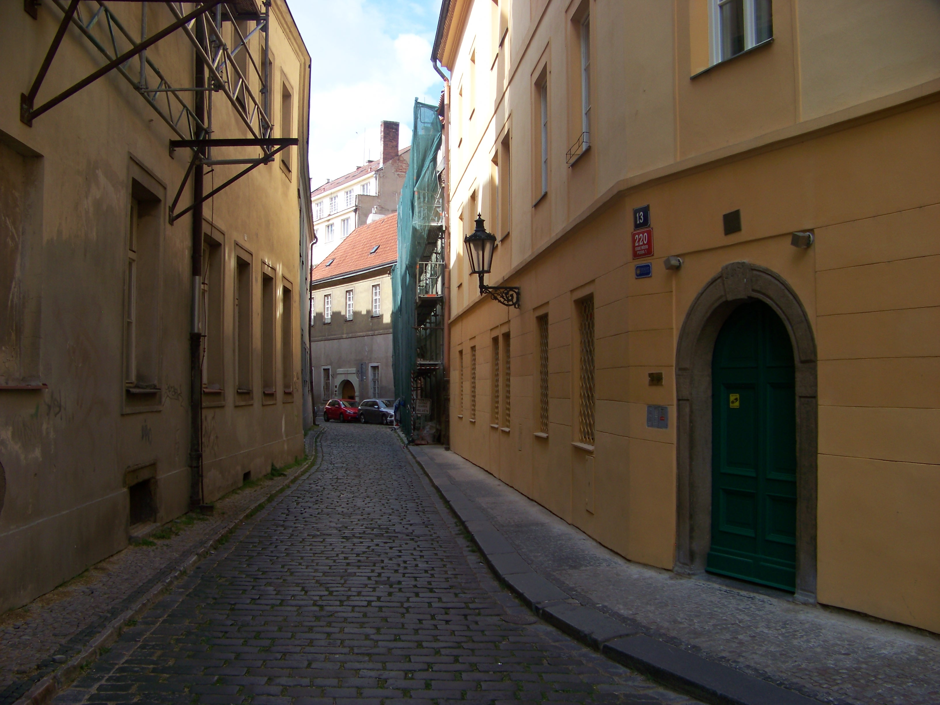 Prague-Old Town. Anenská street, from Liliová street. - OpenStreetMap(Info)